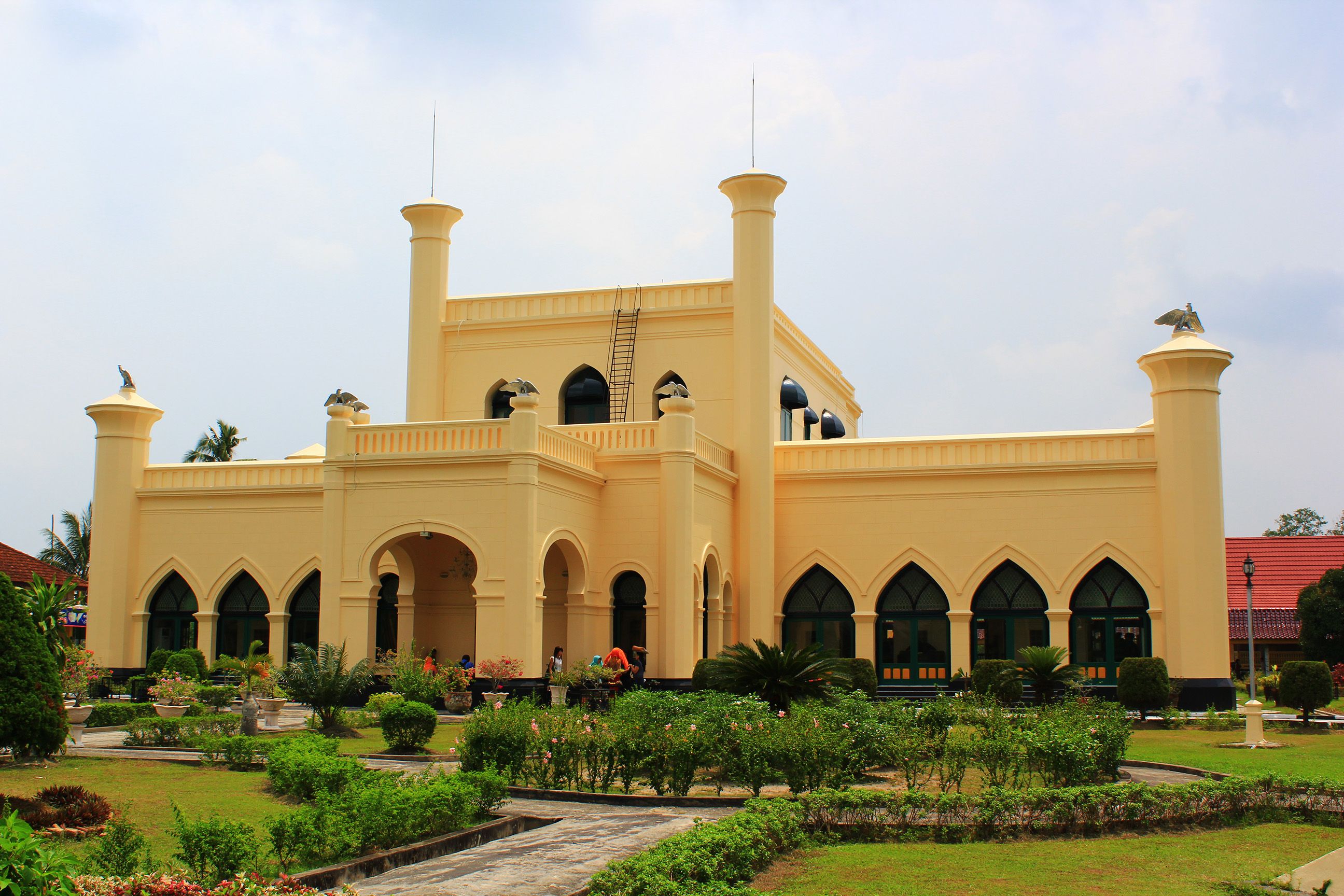 Castle of Siak Kingdom, Riau, Indonesia.